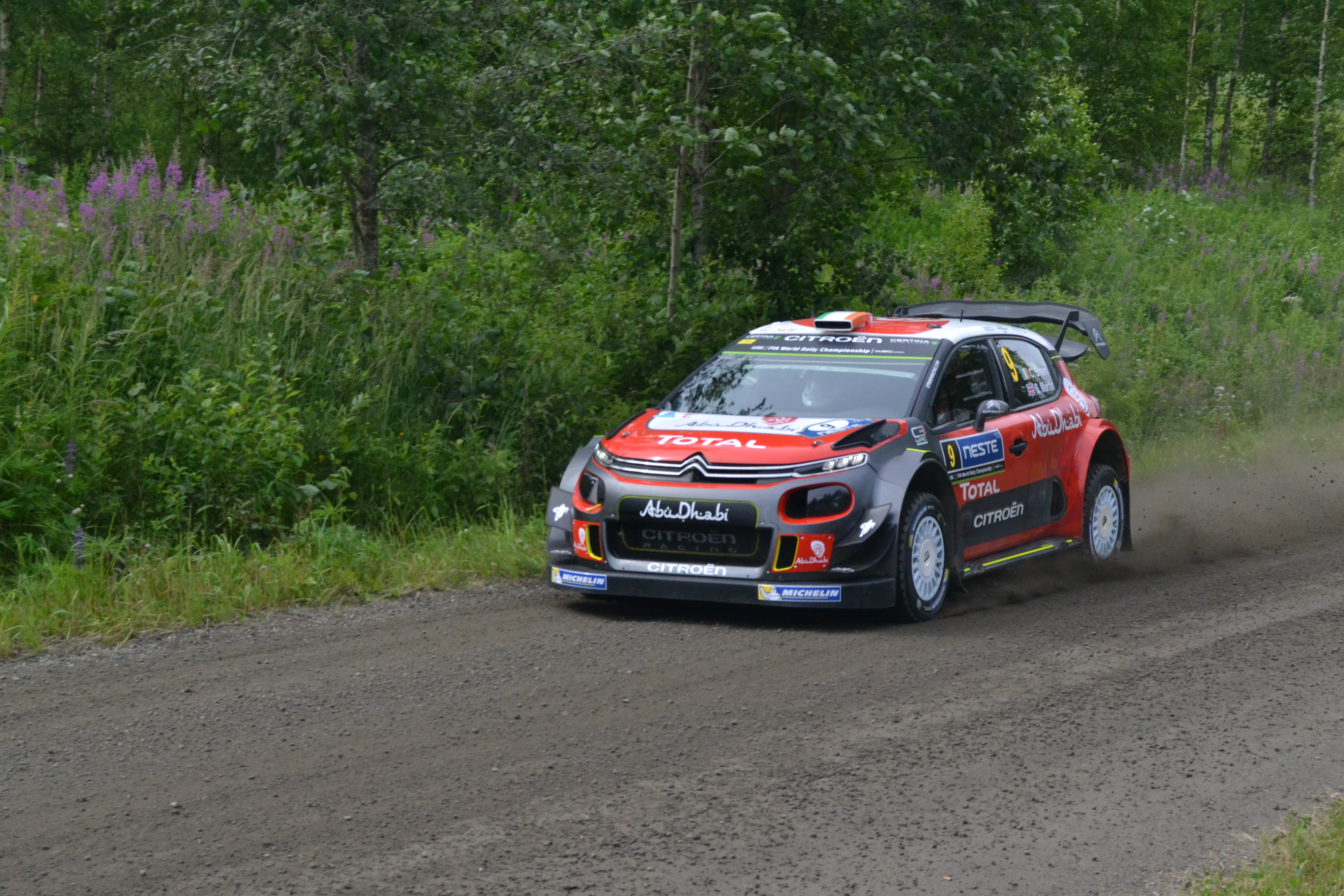 Craig Breen at second Saalahti stage at Rally Finland 2017